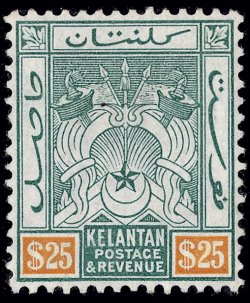 1911-15 $25 Malaya - Kelantan stamp, Symbols of Government. SG # 1-13 (1-12, 9a).